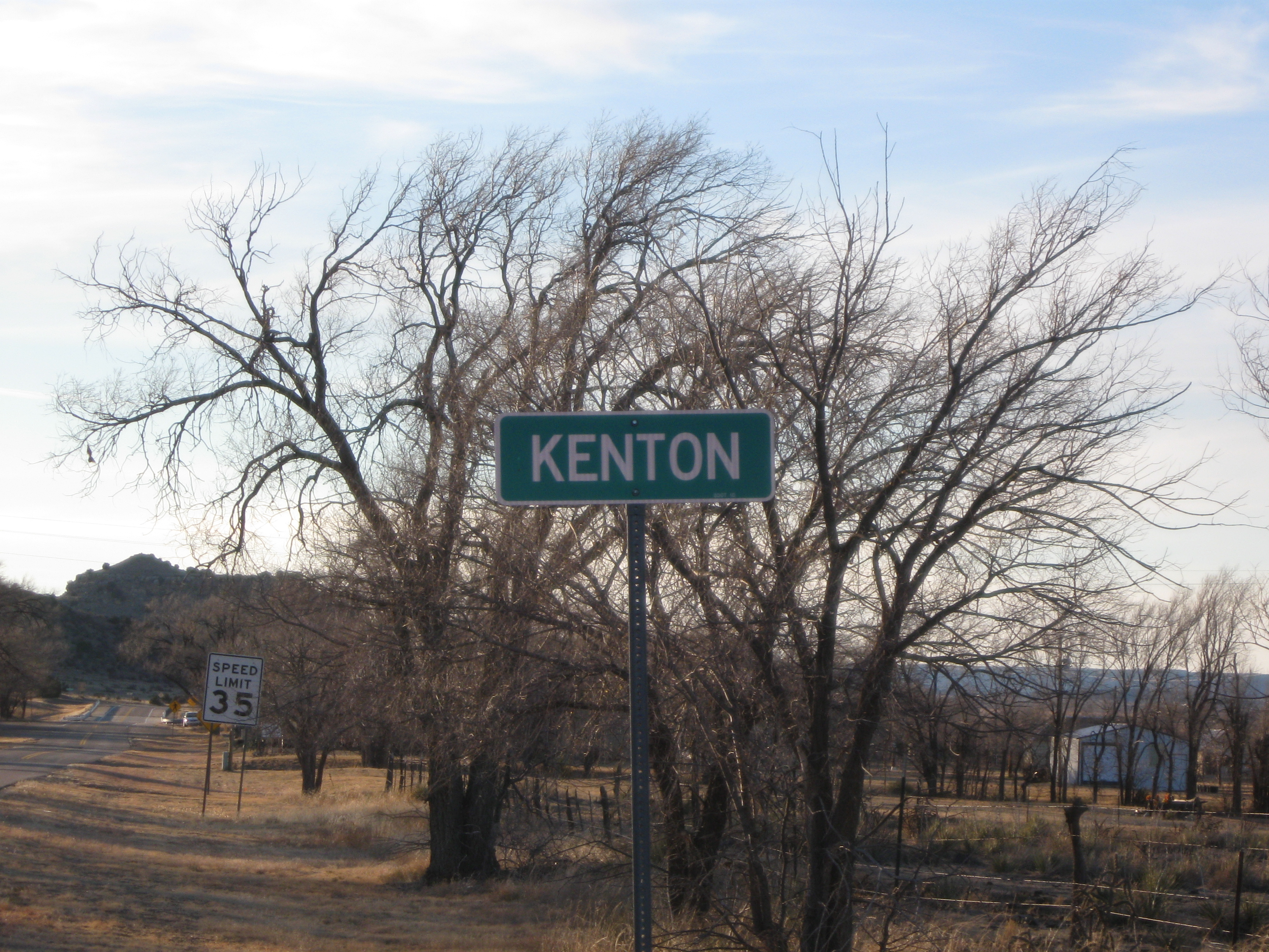 This is the road sign at the eastern edge of Kenton, Oklahoma. This photo is looking west, and was taken in November, 2011.